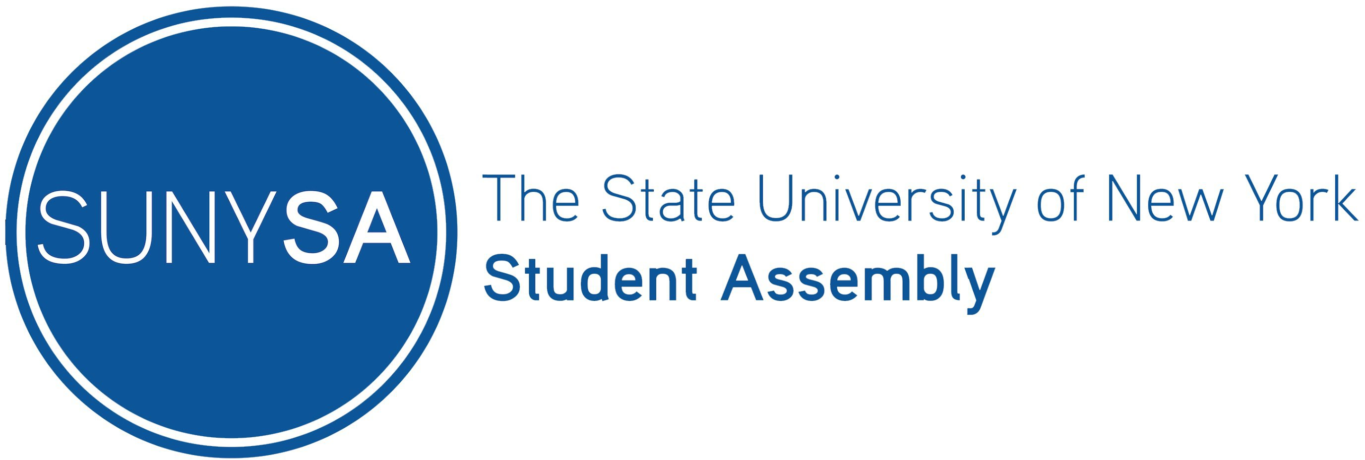 Logo of the Student Assembly of the State University of New York